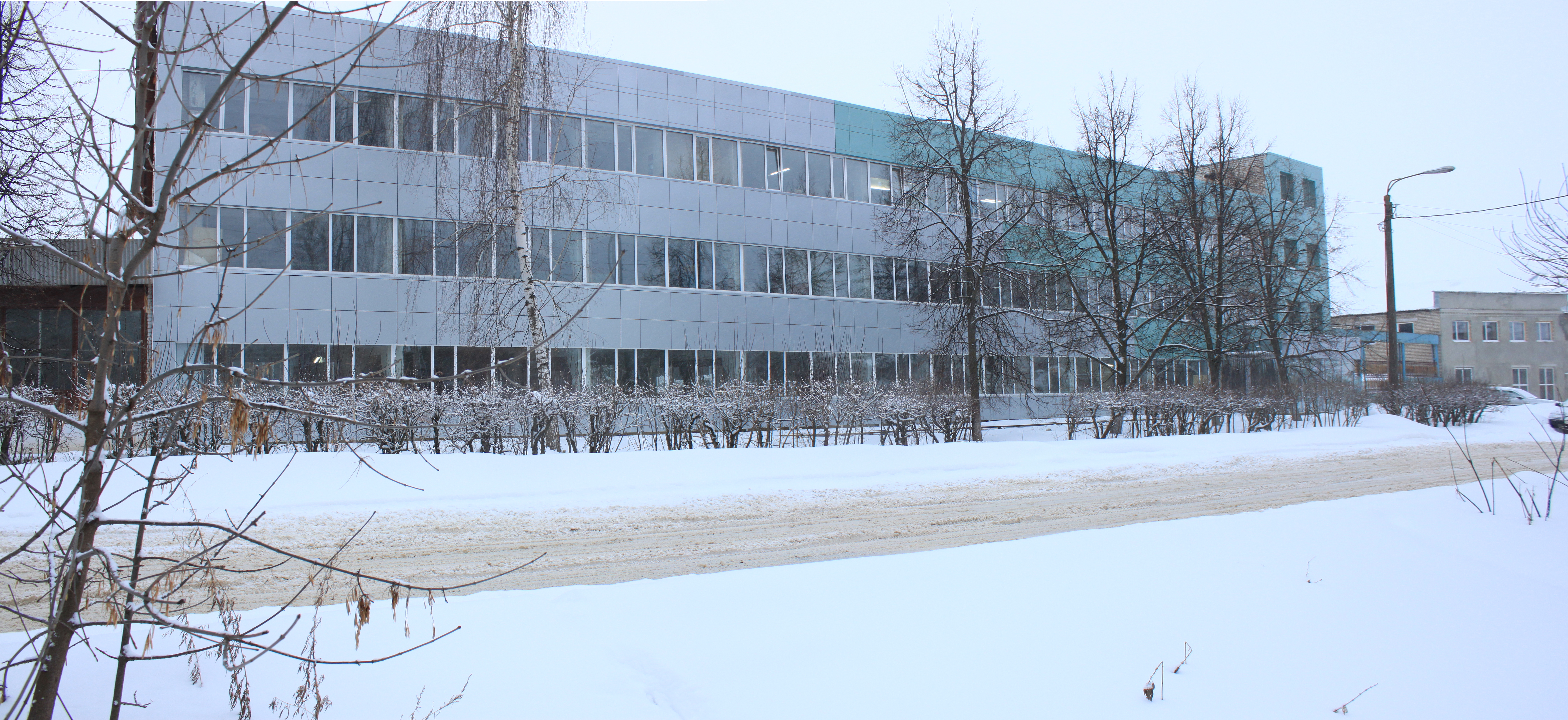 Legmash Arzamas in 2013 year